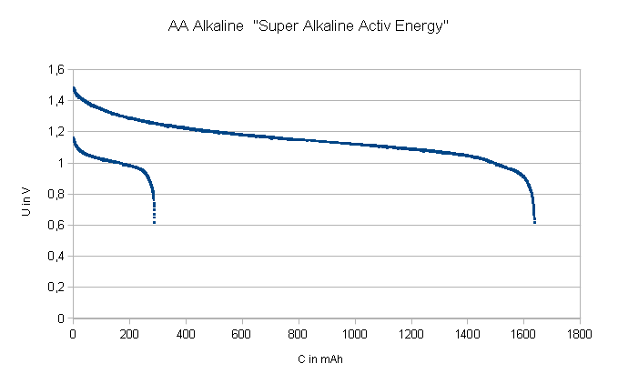 AA Alkaline battery. Voltage as a function of capacity when delivered power was around 300 mW. After regeneration of few hours the battery delivers power again, around 10% of first run (lower curve). Compare with file:Aa-alkaline-100 c-v.png Own measurements.